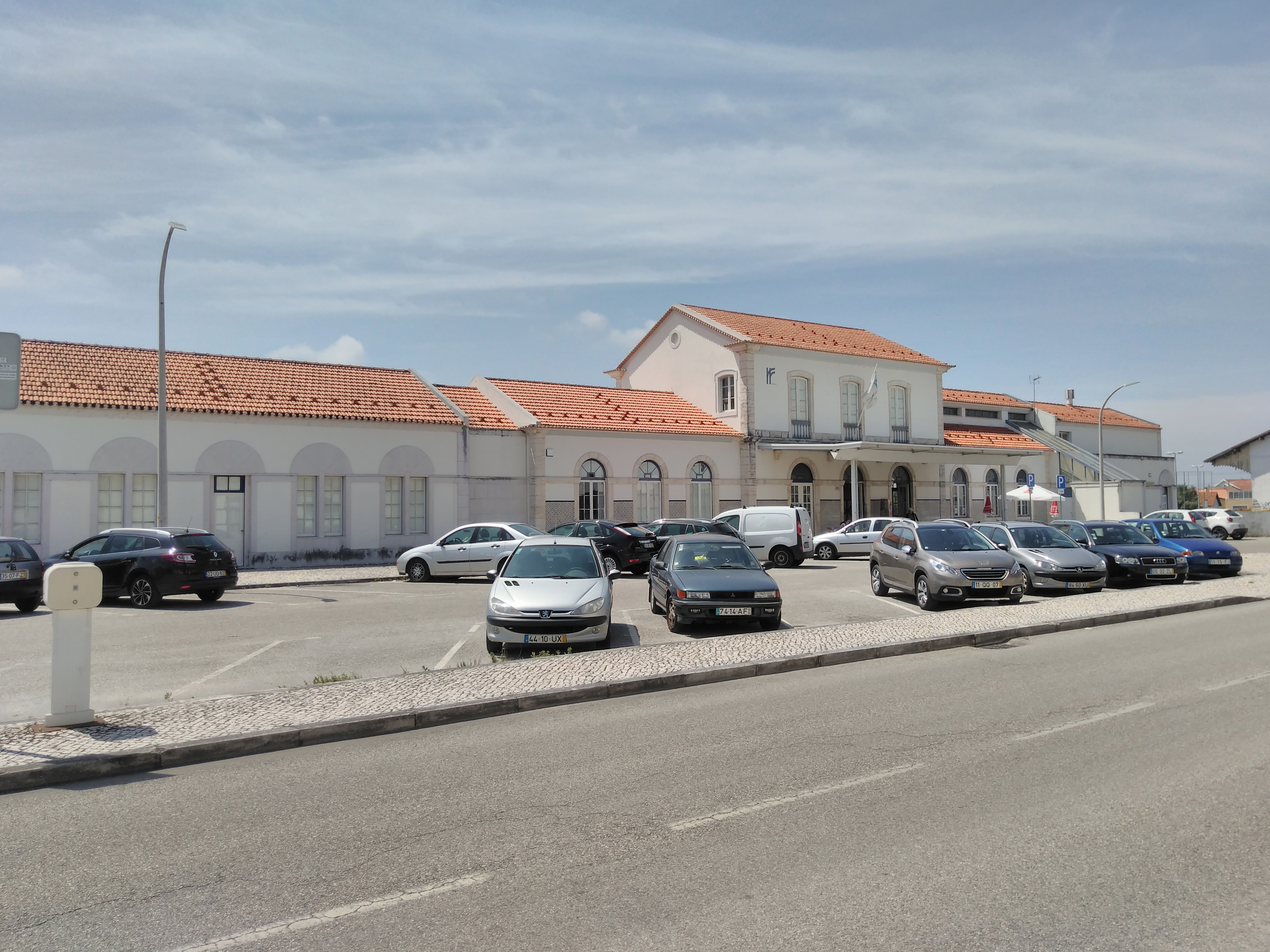 Left view of Leiria's train station, Linha do Oeste (Western Railway line); Portugal